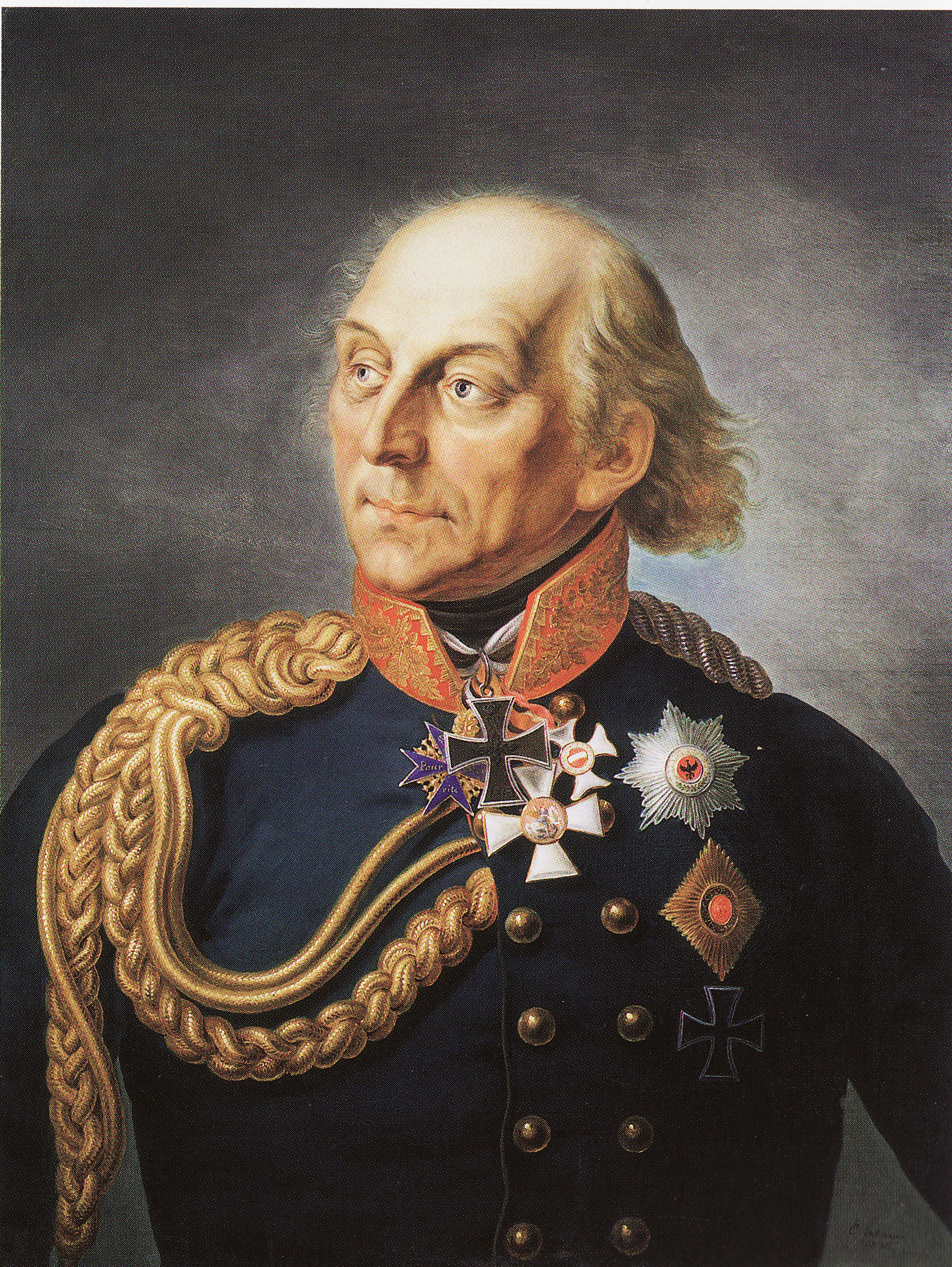 Hans David Ludwig Yorck von Wartenburg (* 26th September 1759 in Potsdam; † 4th October 1830 at Gut Klein-Öls, Landkreis Ohlau, Niederschlesien)